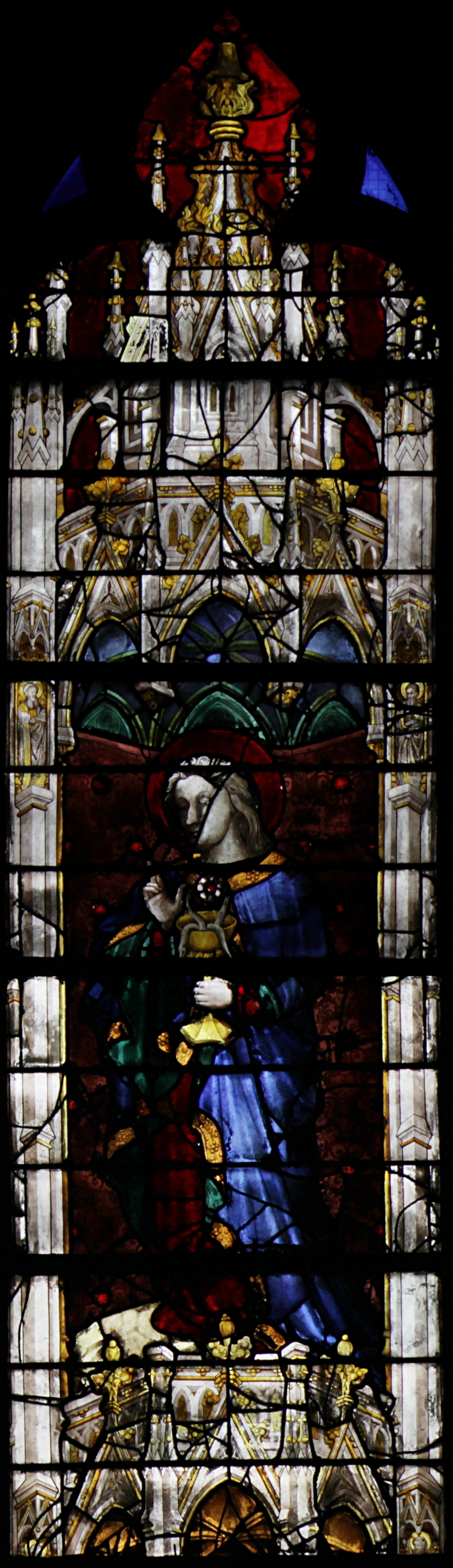 Saint John the Evangelist